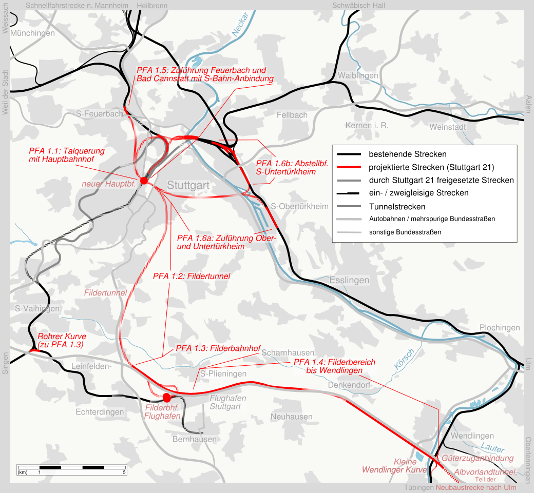 map of Planfeststellungsabschnitte of project Stuttgart 21.